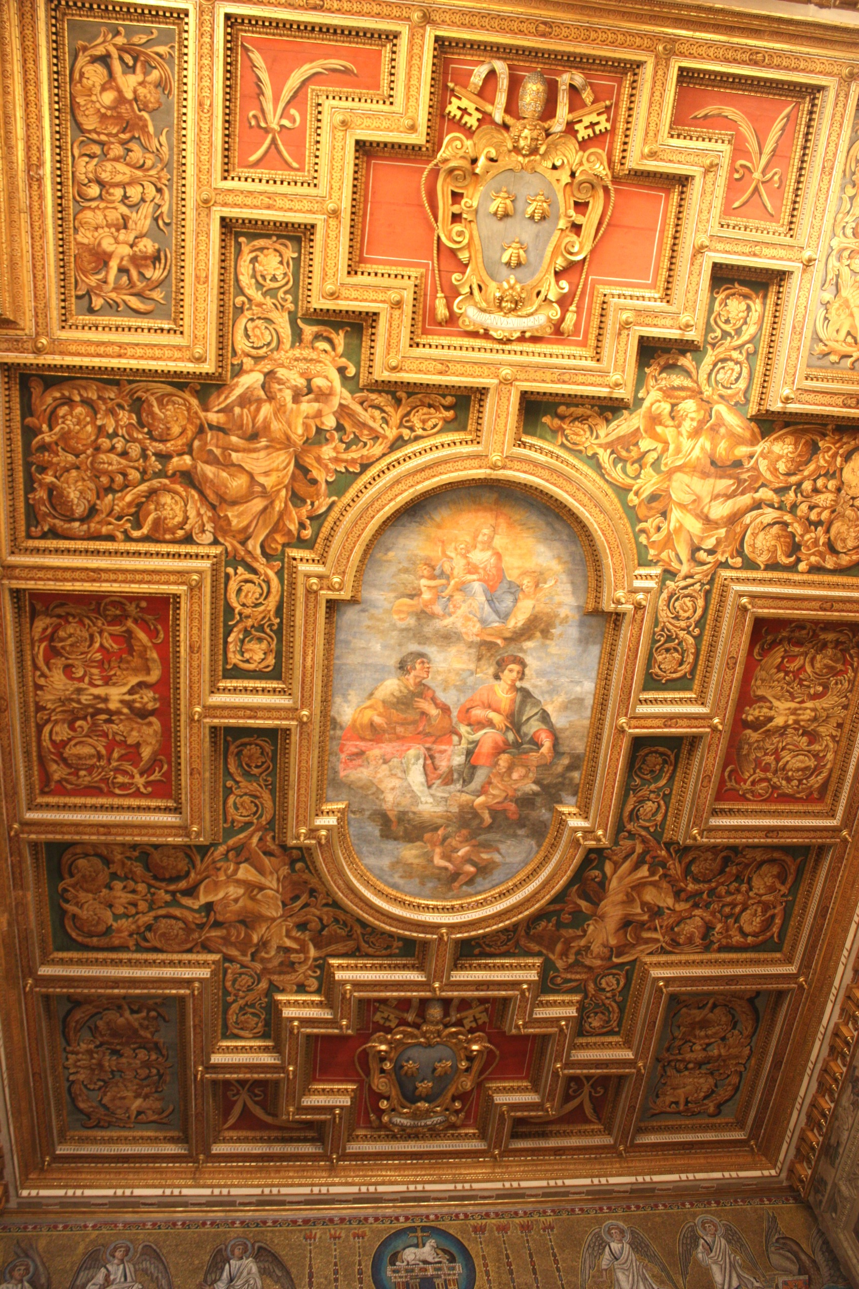 Rome, church Santi Cosma e Damiano, the ceiling